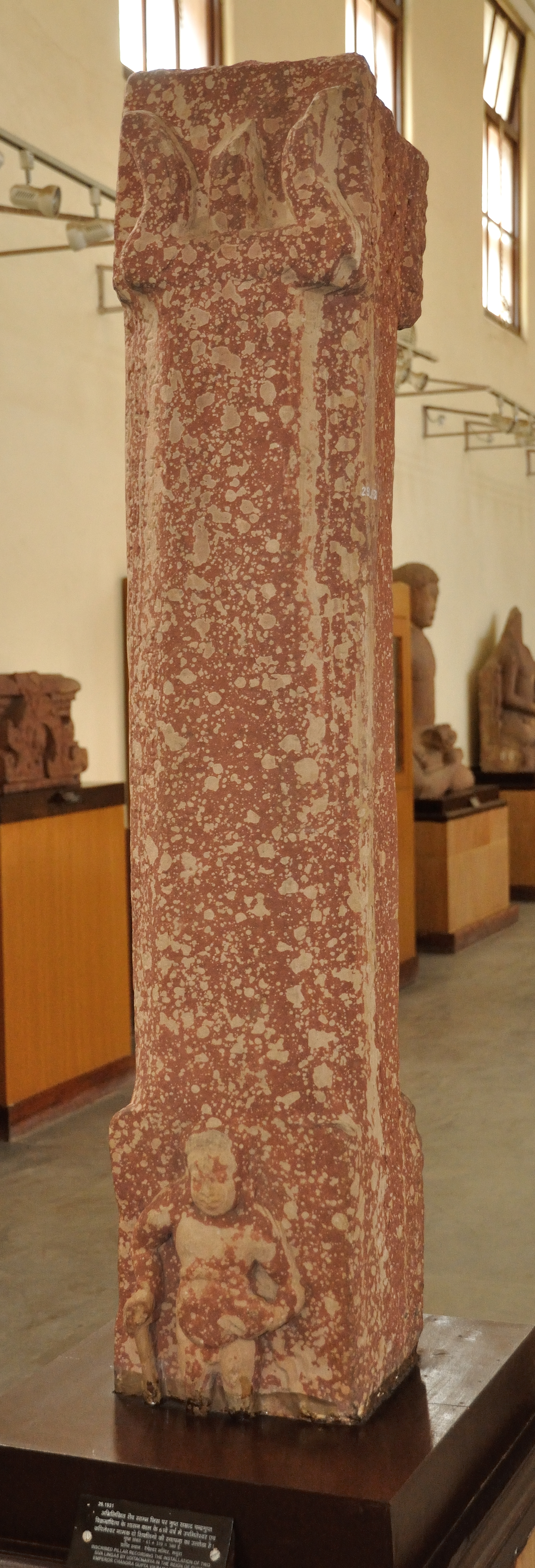 This artefact resides at the Government Museum, (hi: Rashtriya Sangrahalaya) formerly The Curzon Museum of Archaeology, Museum Road or Murari Lal Rajpal road, Dampier Nagar, Mathura, Uttar Pradesh, India. This museum is administrating by the State Government of Uttar Pradesh of India.